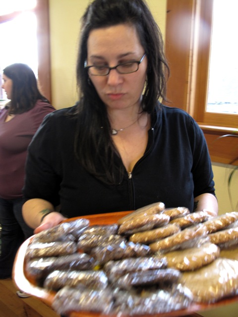 Isa Moskowitz at a Bakesale for Haiti event